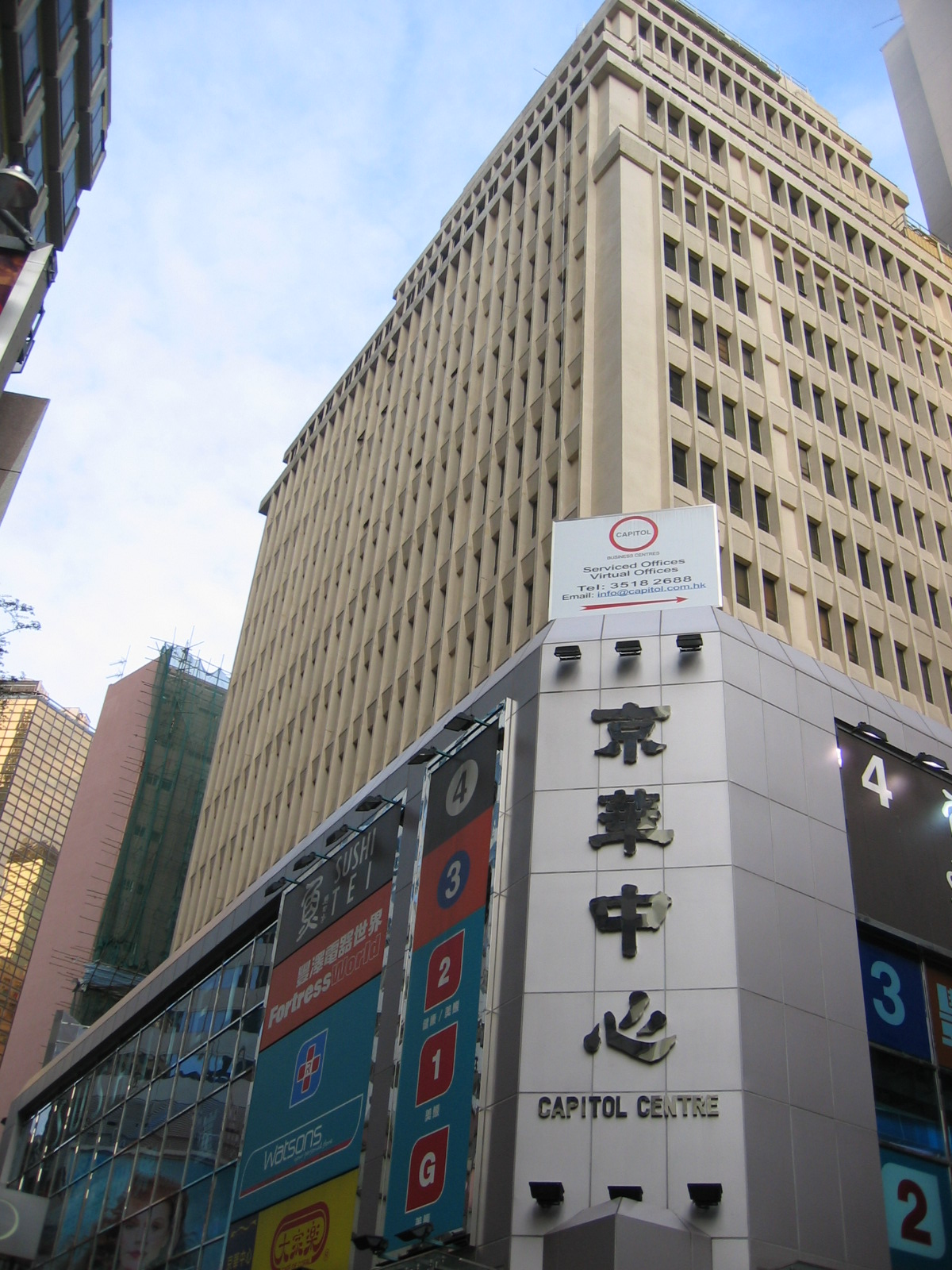 Capitol Centre, Hong Kong at Jardine's Cresent.